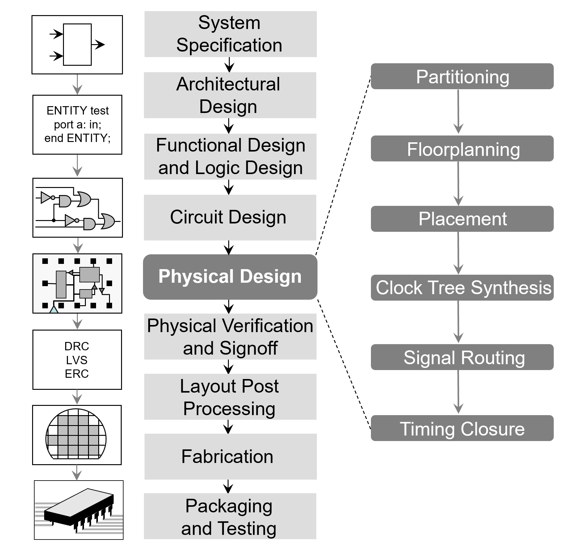 VLSI circuit design flow with a focus on physical design